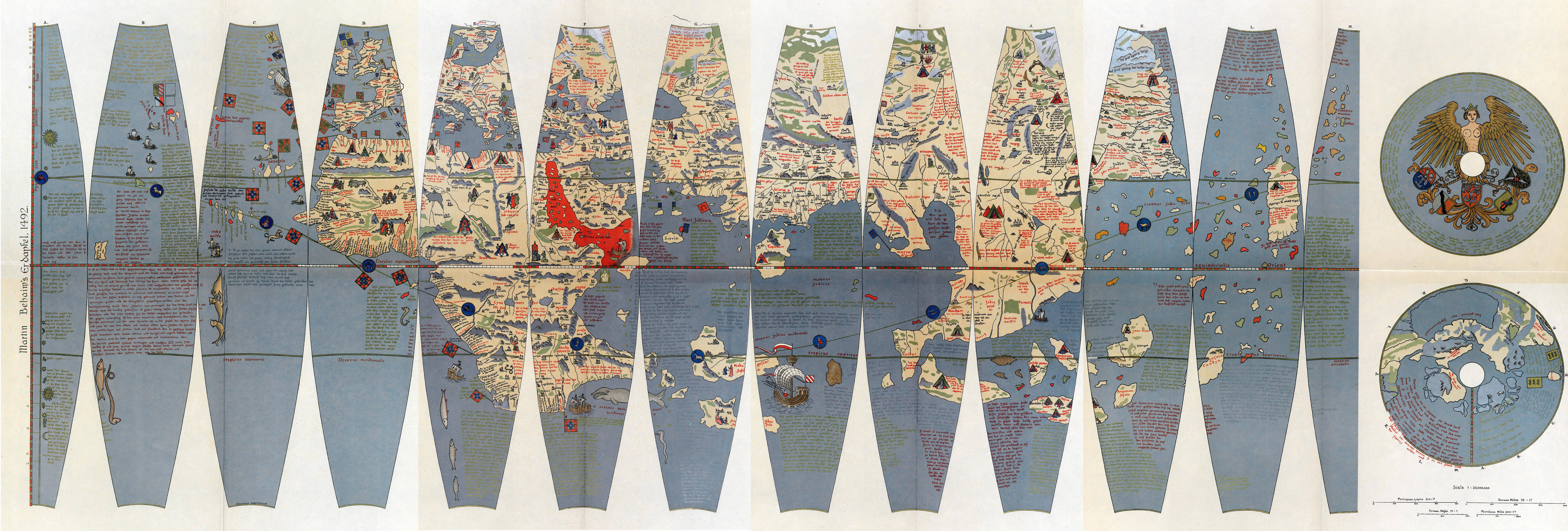 Facsimile of Behaim Globe (1492–1493)